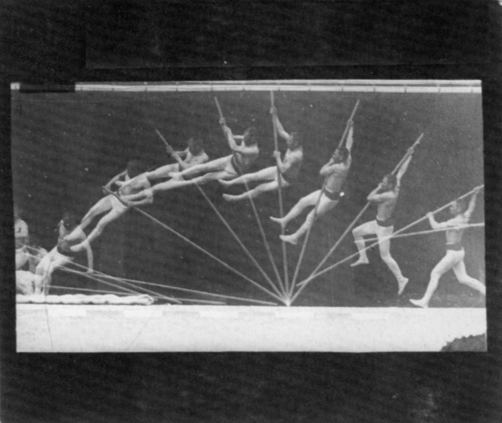 Pole vault